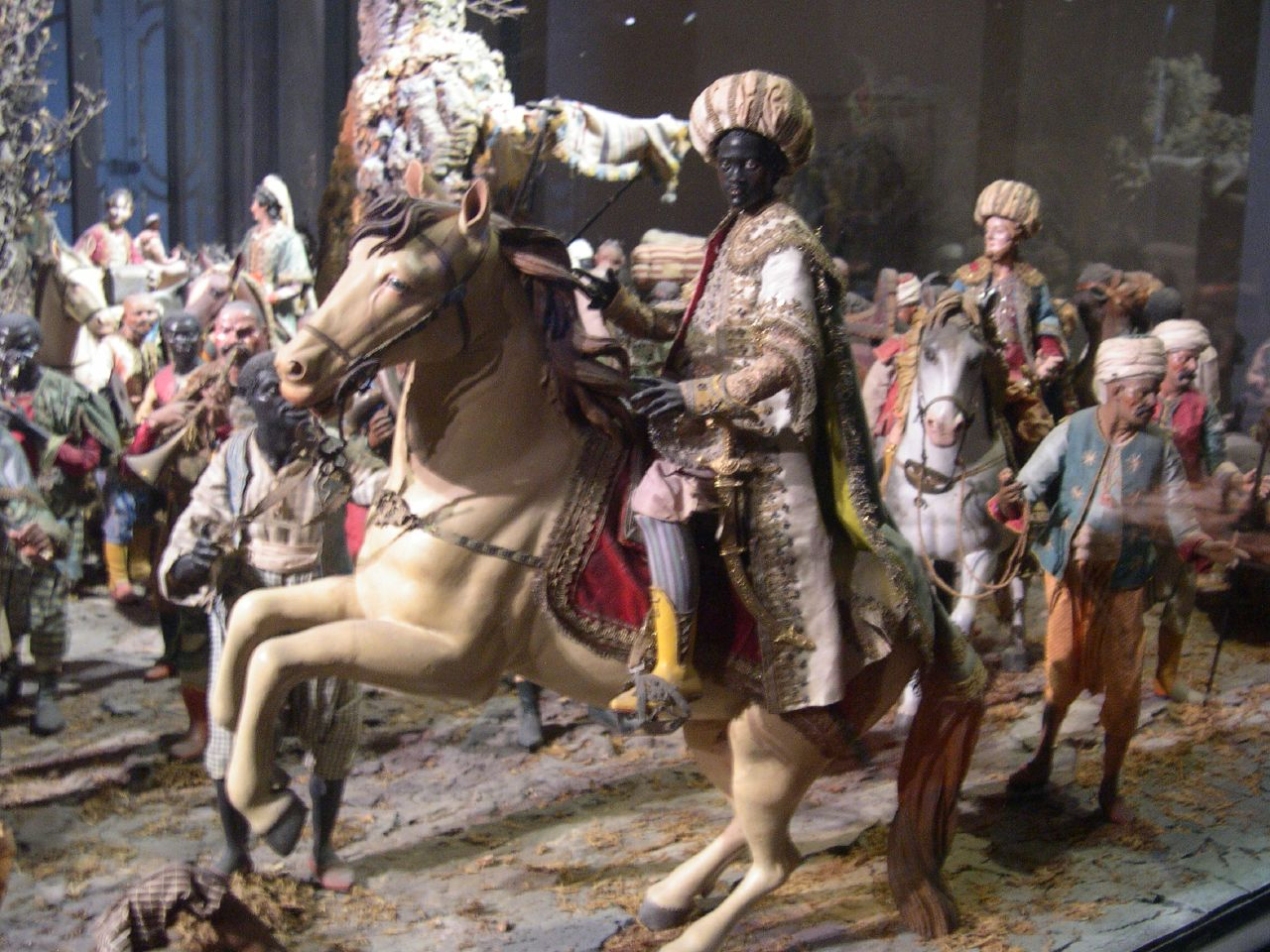 Nativity scene at the Palace of Caserta near Naples - Italy